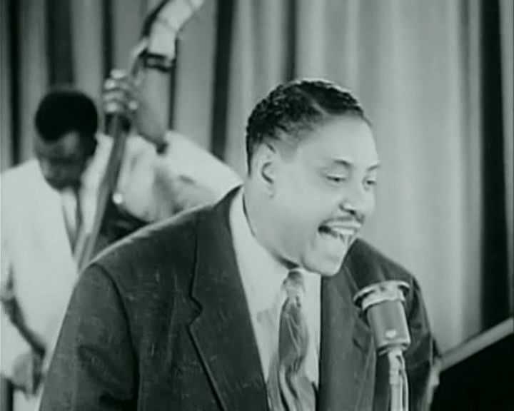 An image of Big Joe Turner captured as a single frame from the Public Domain show "Rock 'n' Roll Revue" 1955 at the Internet Archive.